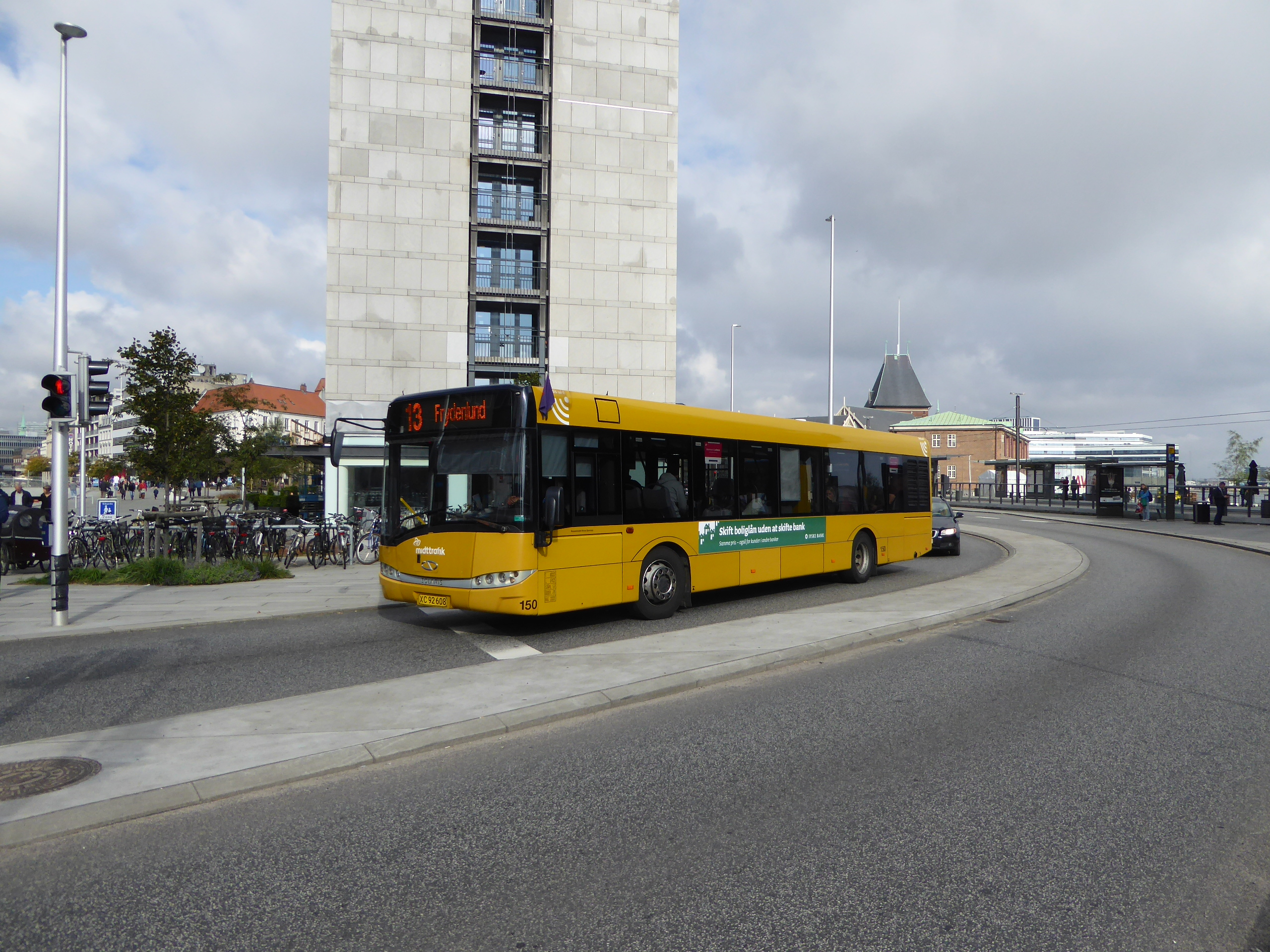 Midttrafik bus line 13 at Europaplads in Aarhus in Denmark.